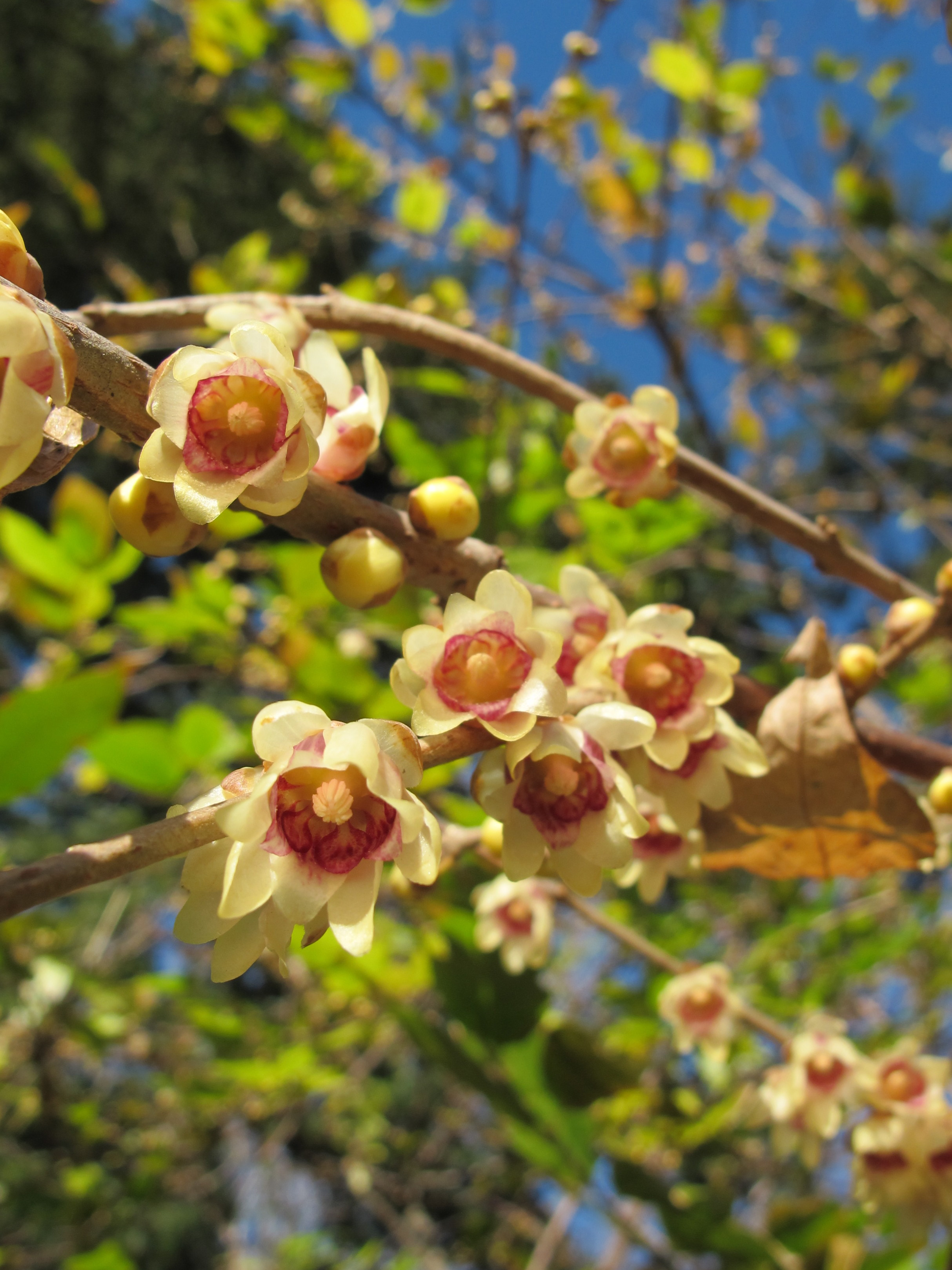 New York Botanical Garden, Bronx, NY